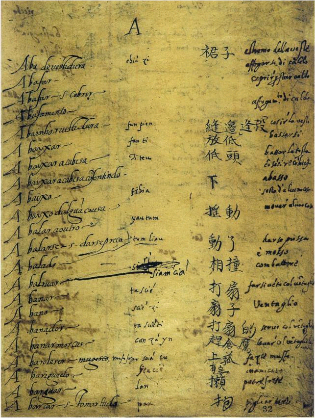 First page of (the main text of) the Portuguese-Chinese dictionary manuscript, compiled by Fr. Matteo Ricci, Fr. Michele Ruggieri, and the Chinese (Macau) Jesuit lay brother Sebastian Fernandez in Zhaoqing, Guangdong.